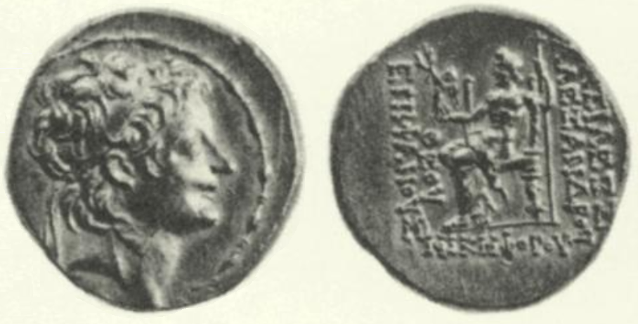 zabinas gold stater sc 2215 sma 358